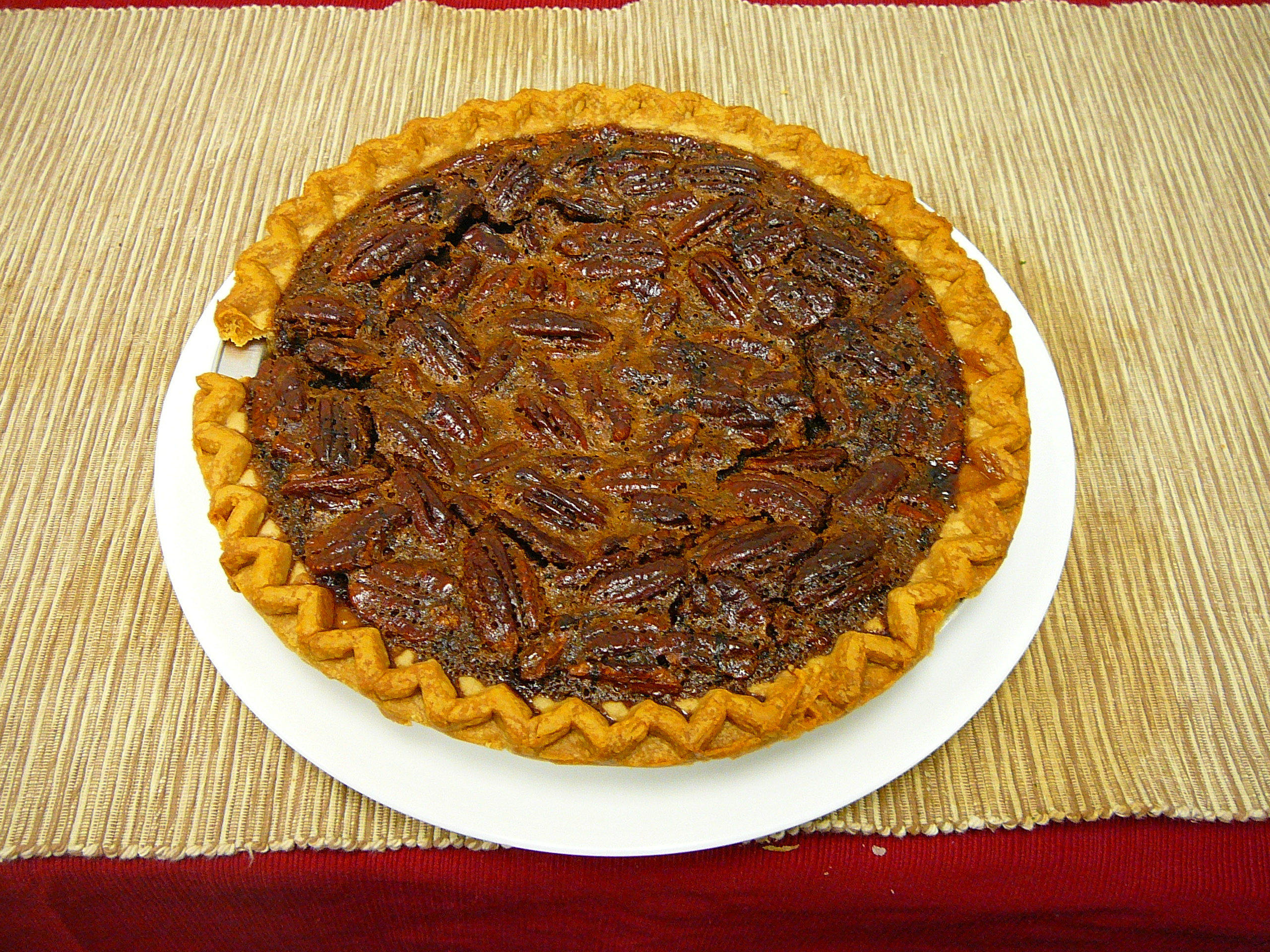 user:Brion VIBBER baked pecan pie for the foundation